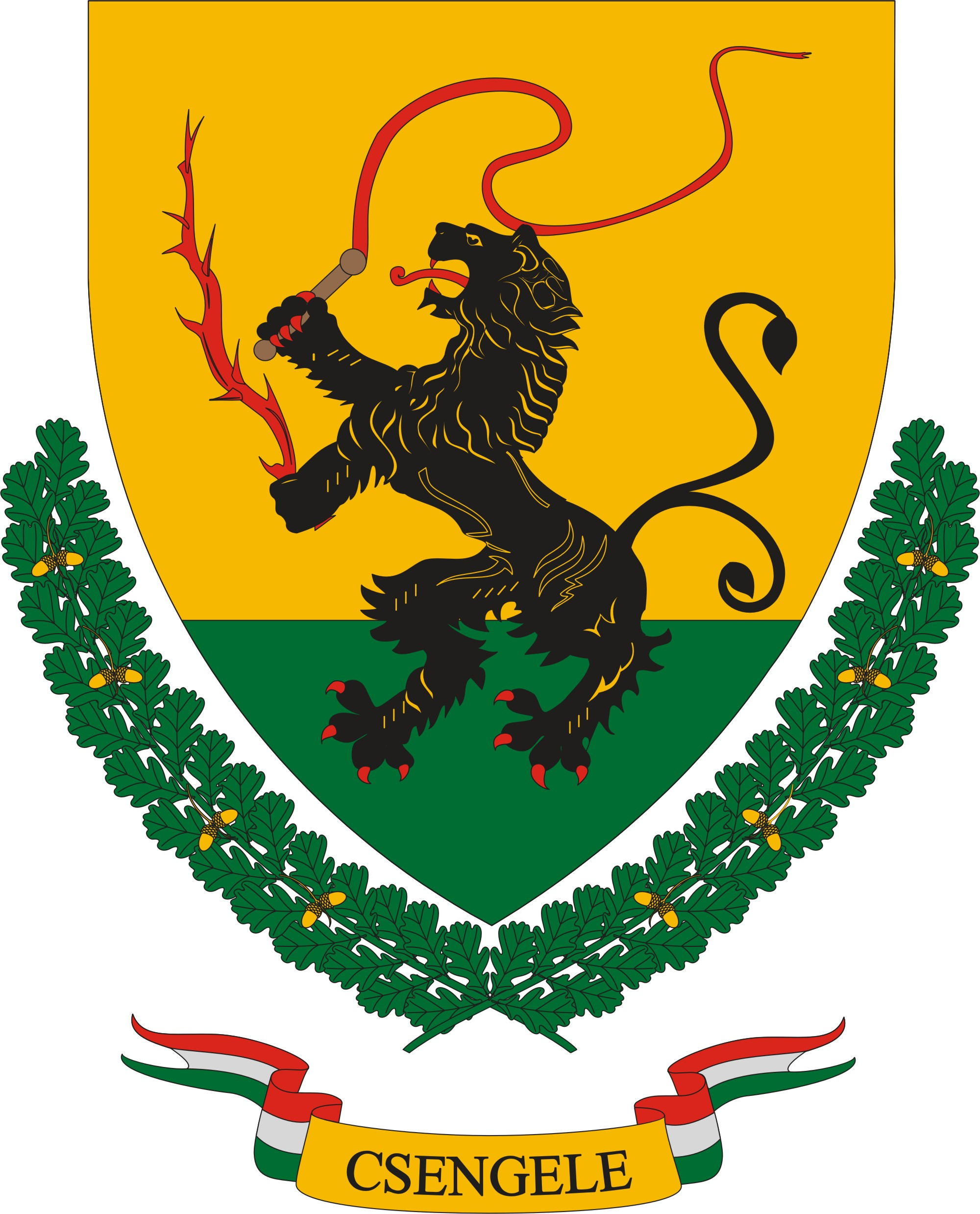 Coat of arms of Csengele, Hungary